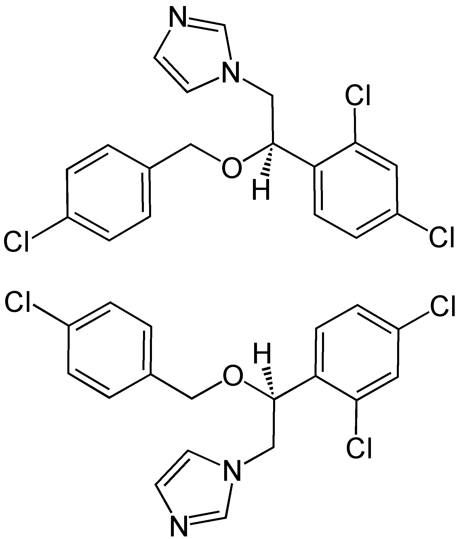 (±)-Econazole_Structural_Formulae_of_both_enantiomers